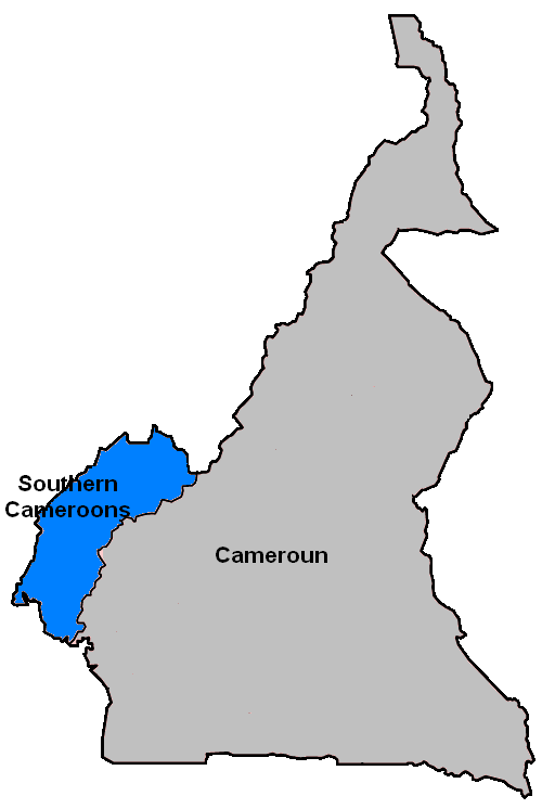 Southern Cameroons Territory in relation to the Republic of Cameroon.